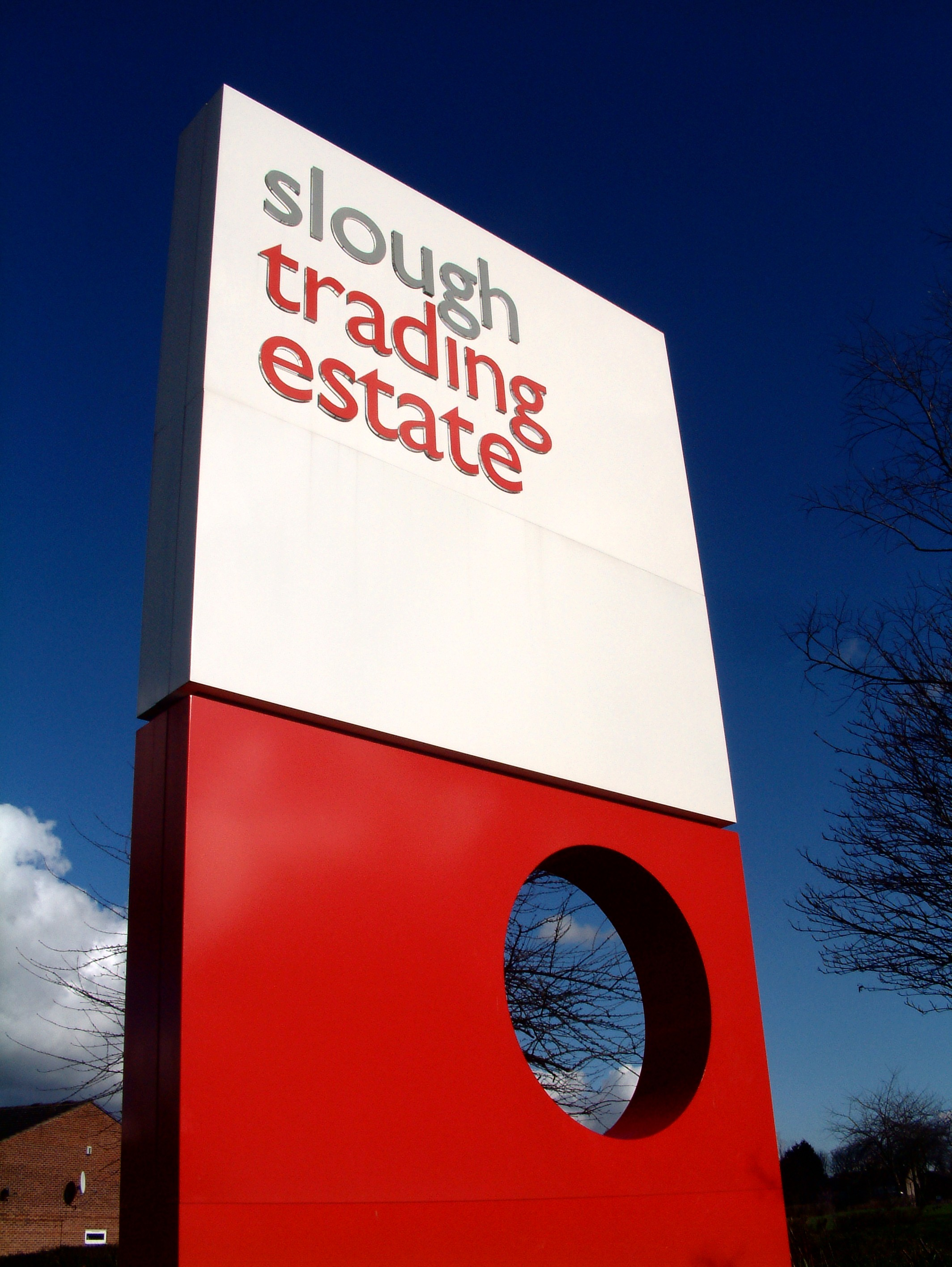 Yep, I work on the lovely Slough Trading Estate, as popularised by "The Office" - not that I've seen it.